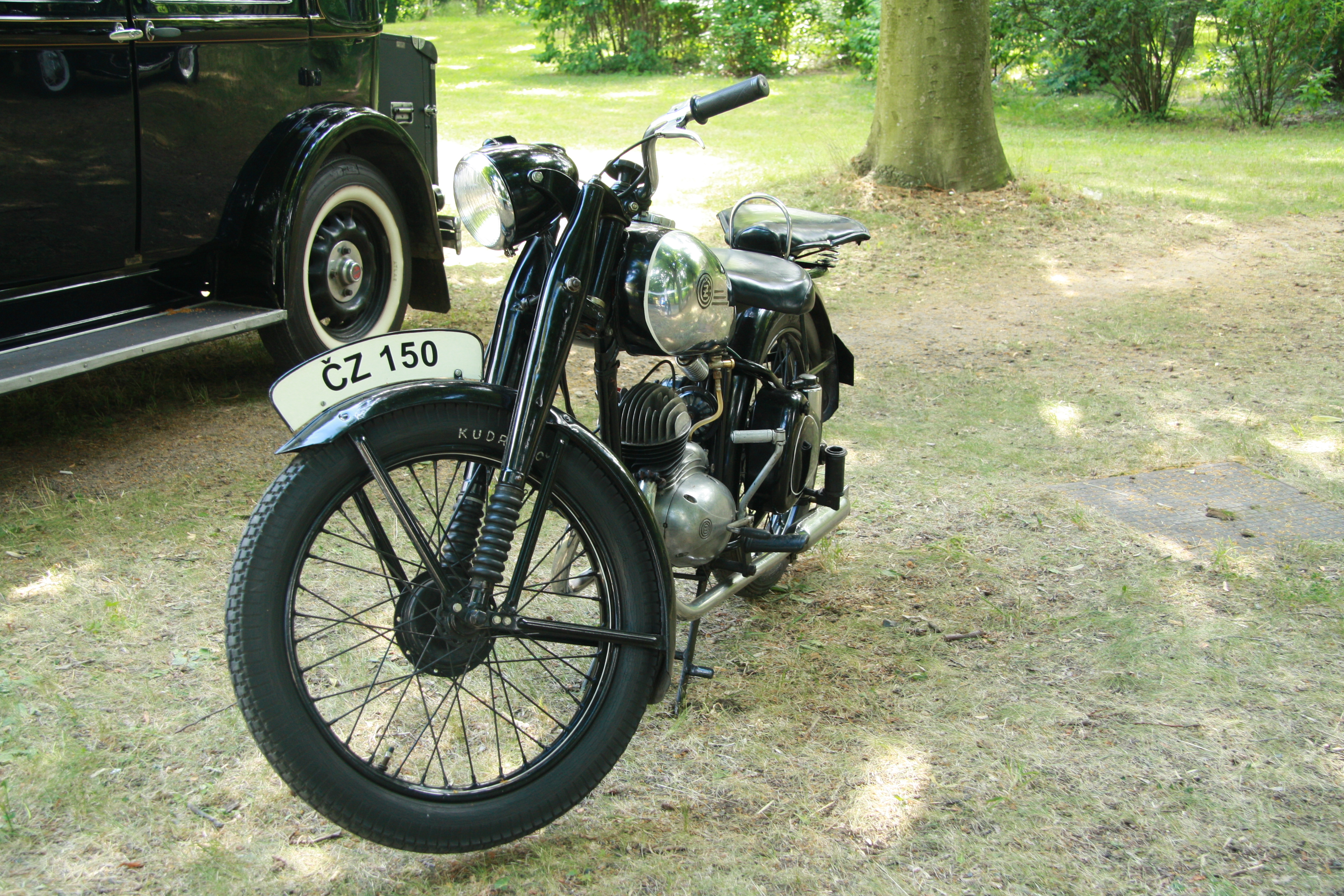 ČZ 150 at Legendy 2014.